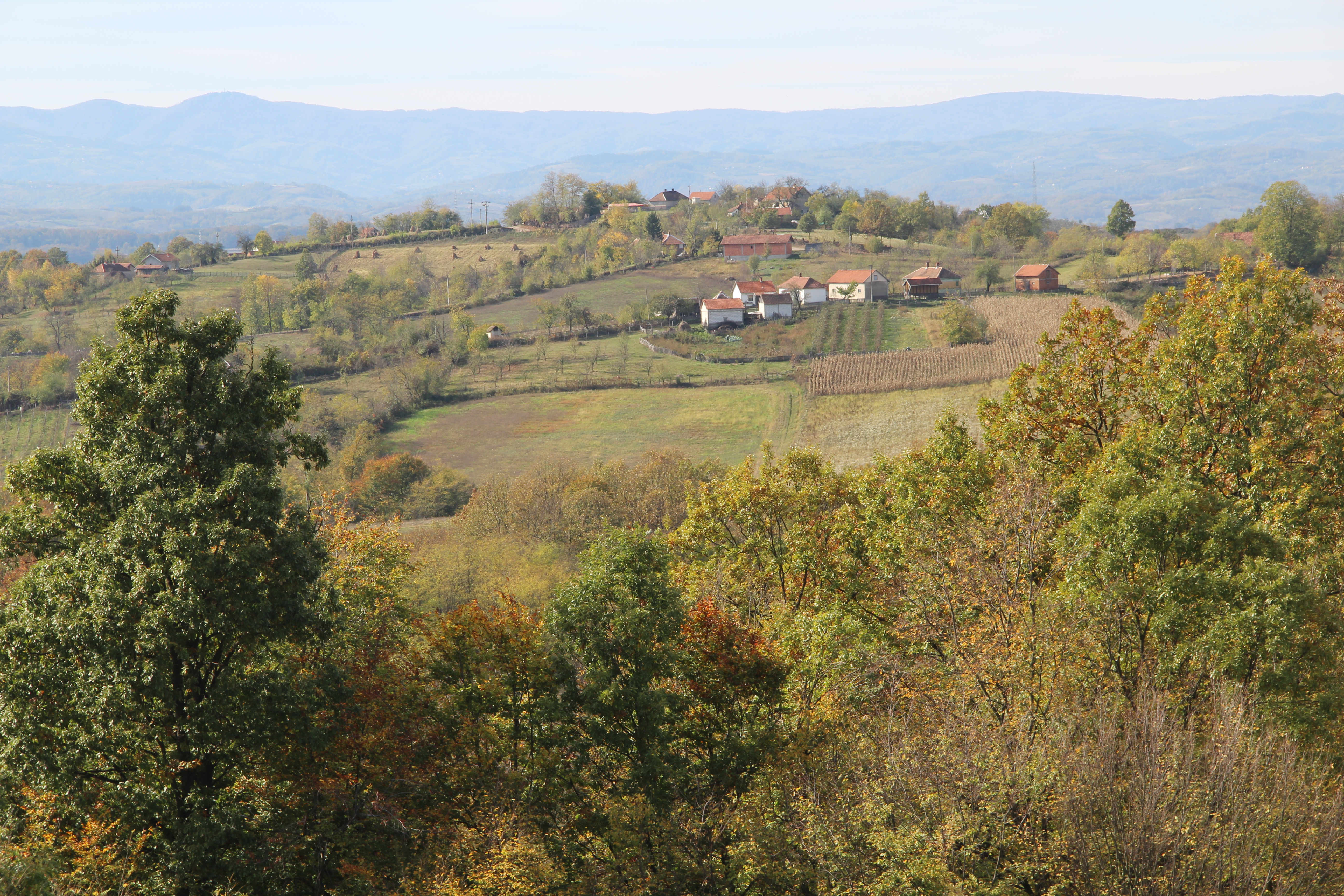 Osečina selo village - Municipality of Osečina - Western Serbia - Panorama 6